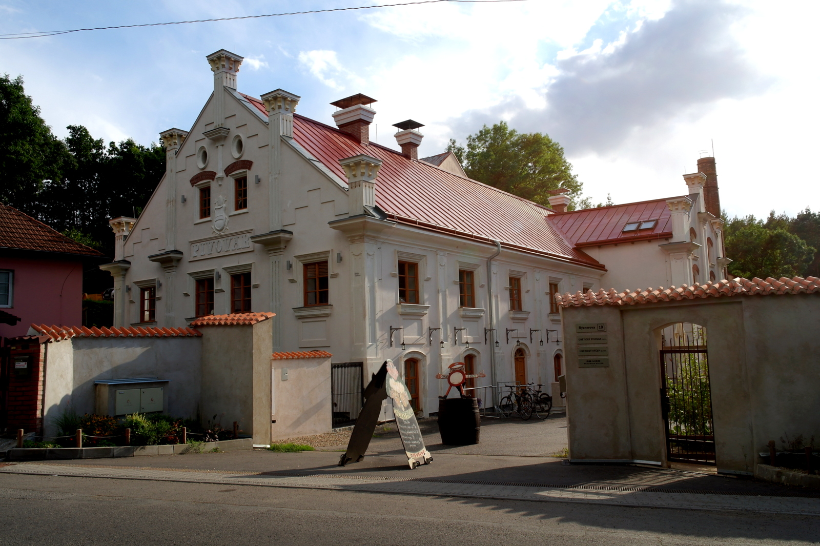 Únětice brewery, Únětice, Prague-West District. New look of the brewery building after renovation in 2014, which reflects the look of the early 19th century.